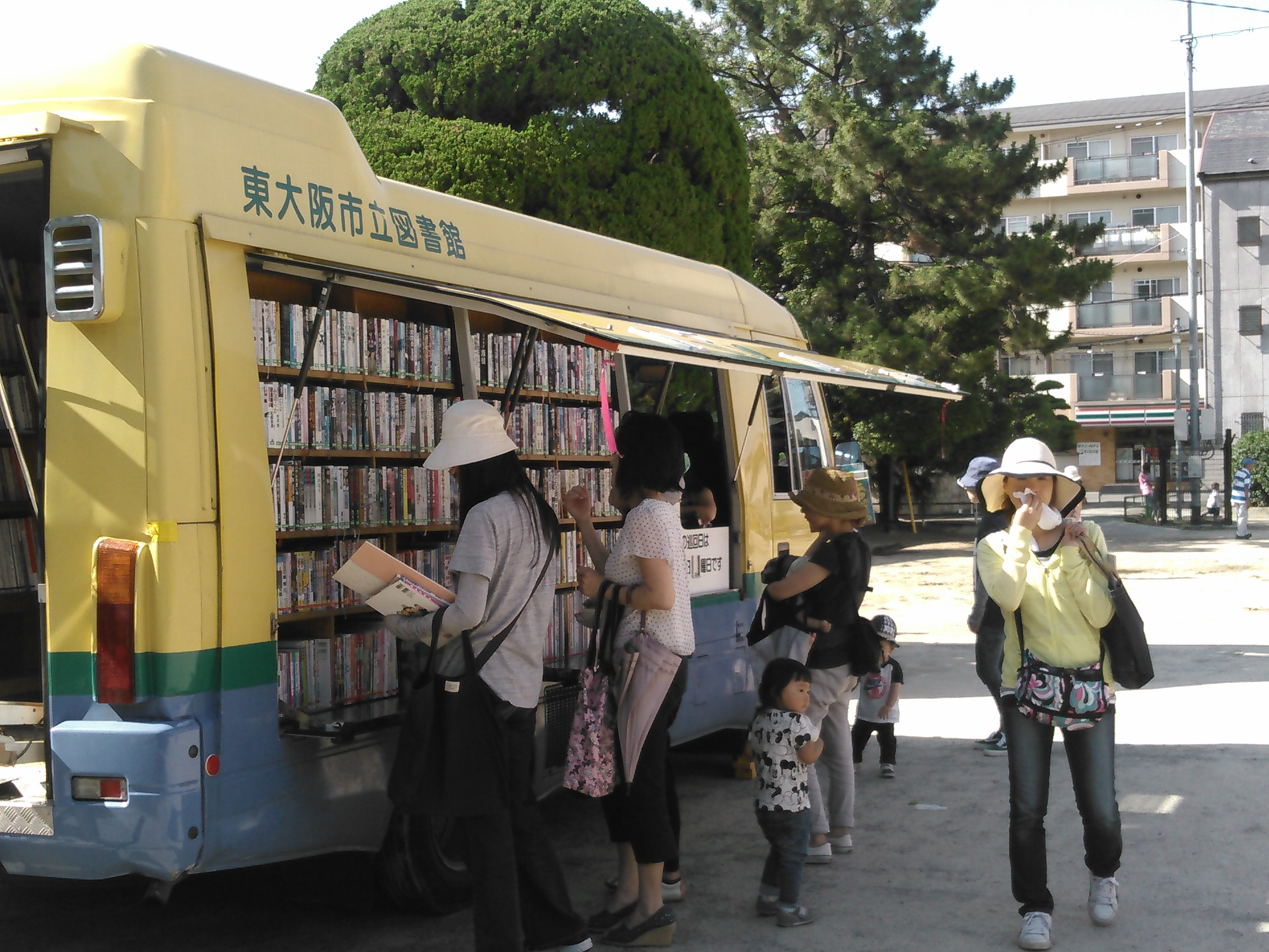 Book Mobile at Higashi-Osaka 2016 at Inada Park